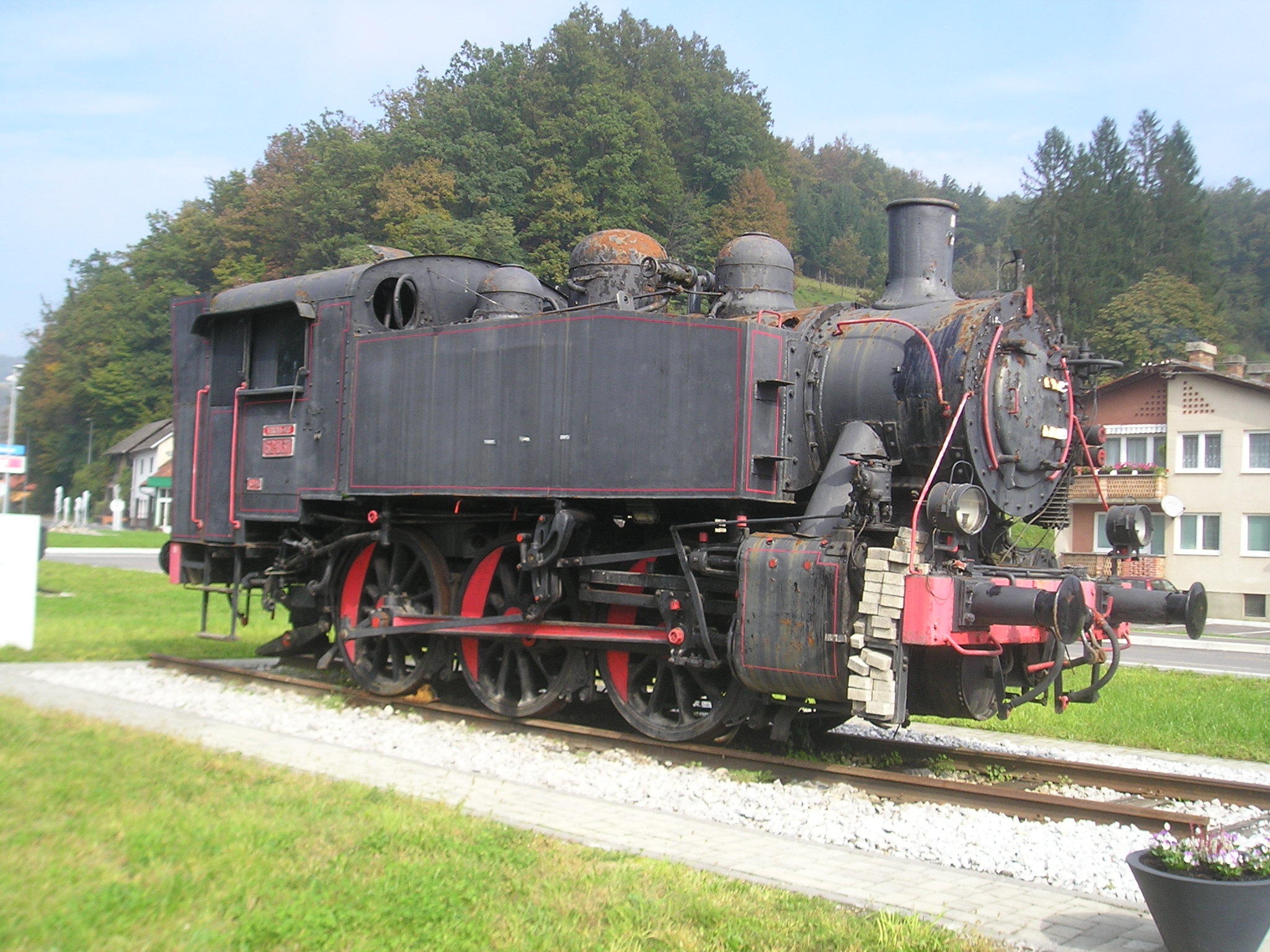 Standard gauge steam locomotive 62-037 in Krmelj, Slovenia. Length: 8992 mm, height: 3788 mm, weight: 48.3 t, diameter of driven wheels: 1372 mm, max. speed: 45 km/h, diameter of steam cylinders: 420 mm, piston stroke: 610 mm, lattice surface: 1.78 m², steam pressure: 15 bar, axle load: 16 t, type of brakes: steam, power: 280 kW (380 HP). The locomotive was produced by the factory Vulcan in the USA in 1943, serial nr. 4494. This type of locomotives was designed as aid to European railways with mostly devastated rail tracks during the WW2. These locomotives were most commonly used for shunting. This one was delivered to Yugoslavia via the UNRRA program. Pospichal Lokstatistik. About the class 62. More photos: 1 and 2.